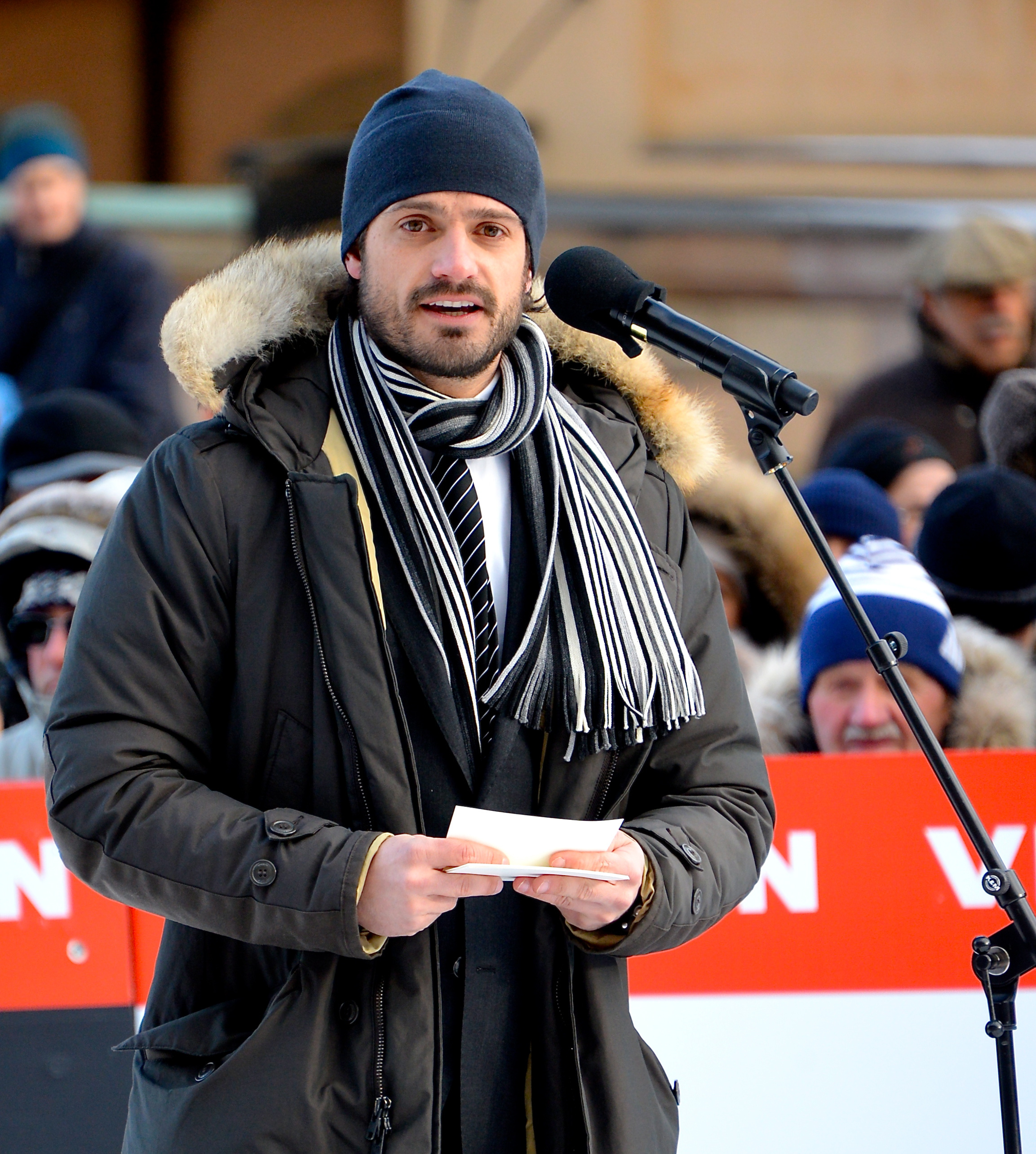 Prince Carl Philip at the Royal Palace Sprint, part of the FIS World Cup 2012/2013, in Stockholm on March 20, 2013.